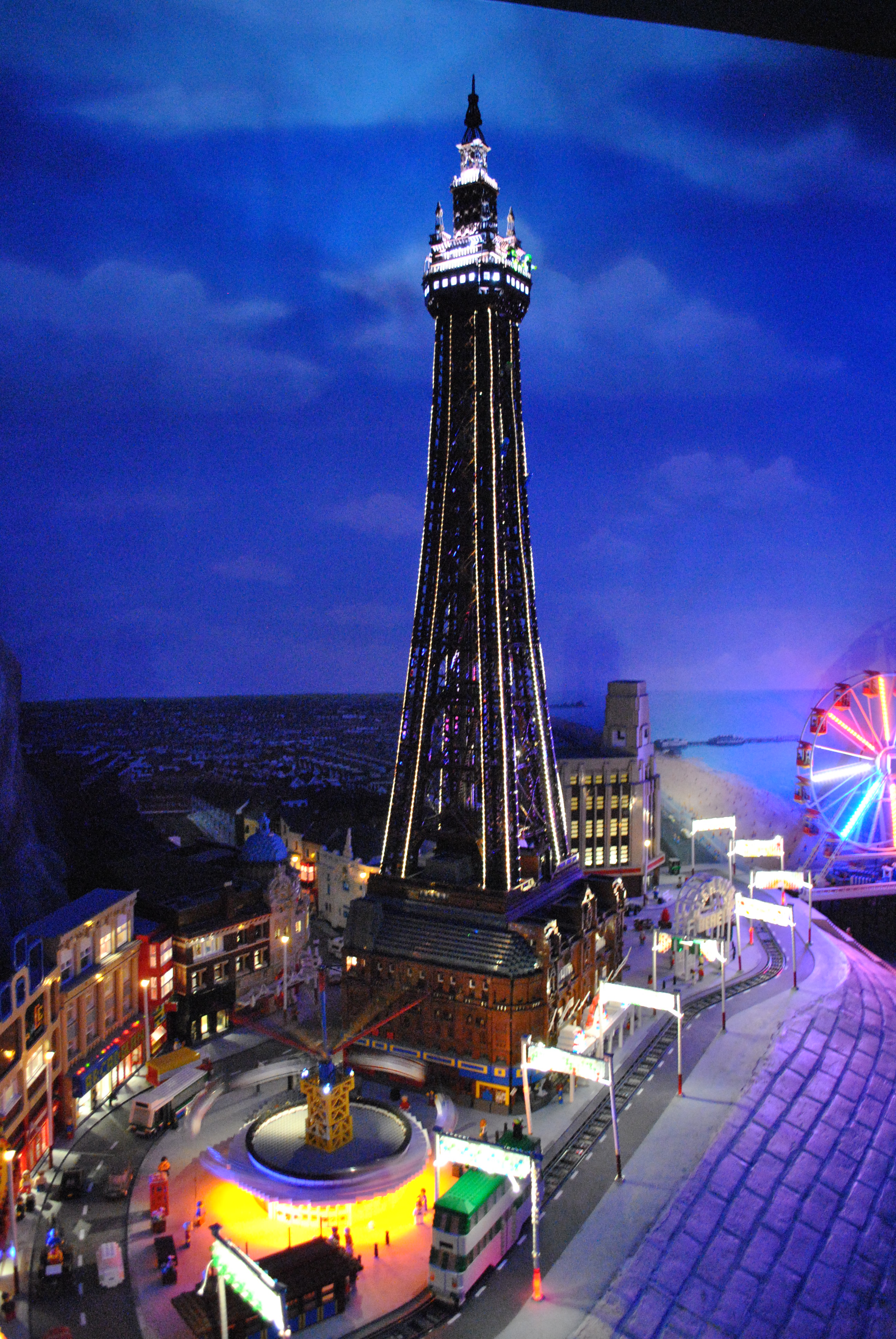 Model of Blackpool Tower at Legoland Discovery Centre Manchester, Trafford Park, Manchester, England